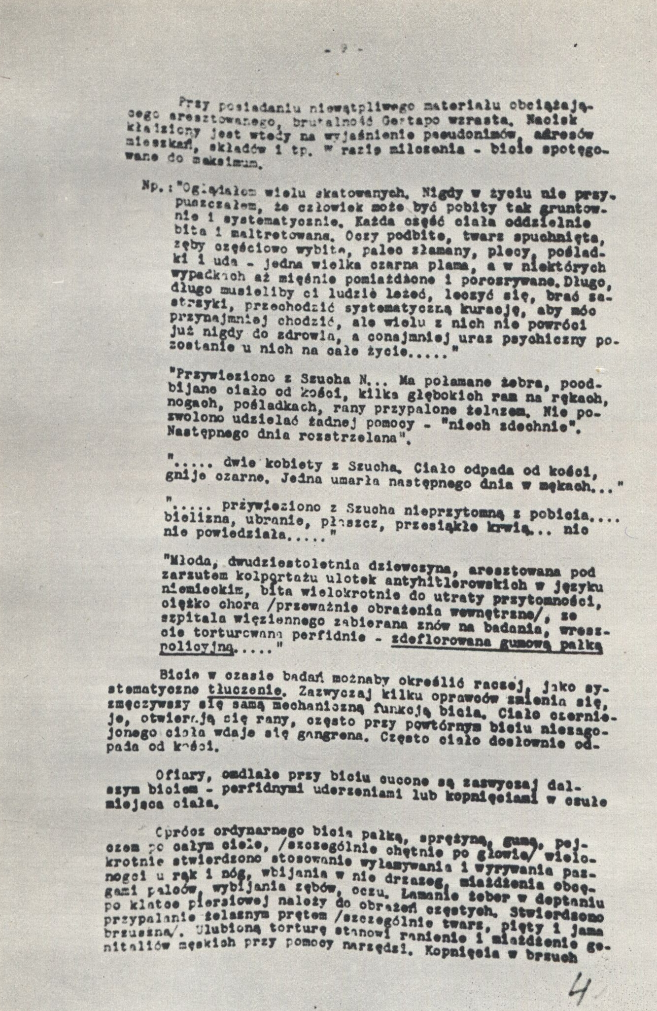 One page from the report of the Polish Underground State about Nazi atrocities in prisons and concentration camps localized in German-occupied Poland. This page concerns the atrocities in Pawiak prison in Warsaw. Report was published in London in 1944 by Polish government-in-exile.